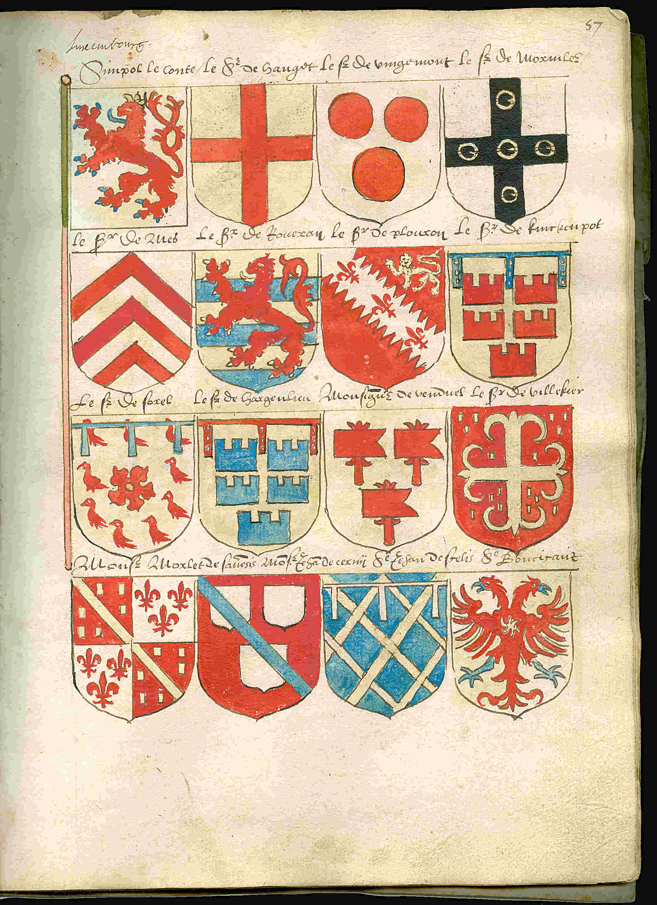 Page 57 from a copy of the Beyeren armorial / Wapenboek Beyeren from ca. 1600. The original Beyeren armorial from 1405 can be viewed at the website of the KB